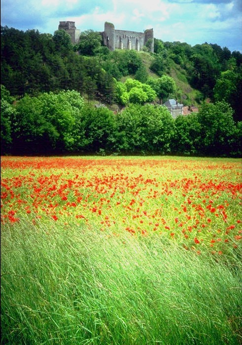 Chateau de Druyes-les-belles-fontaines, bourgogne, France Castle of Druyes-les-belles-fontaines in the French Burgundy. auteur/author: P.Charpiat - 1999